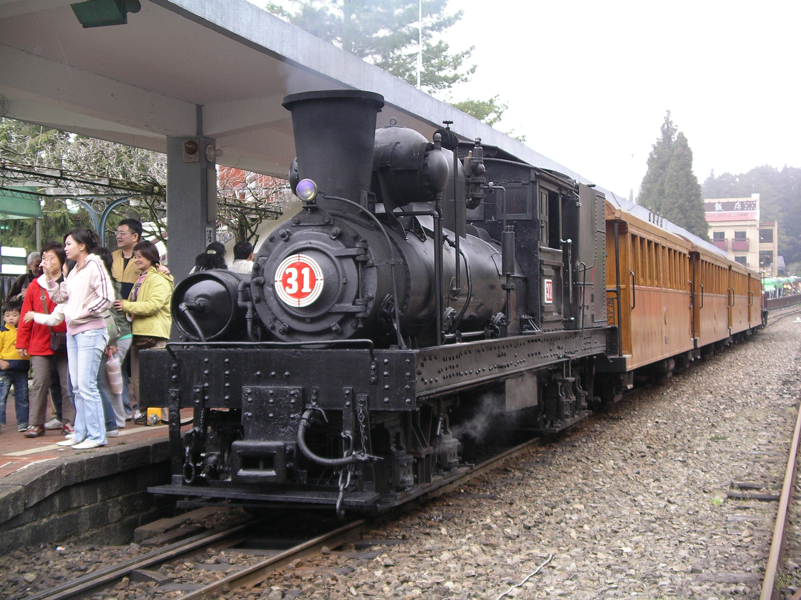 Alishan Forest Railway 28t Shay No.31 & Cypress Train at Jhaoping Station